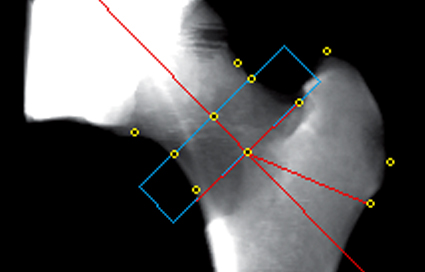 CTXA-hip scan produces DXA-equivalent hip results.